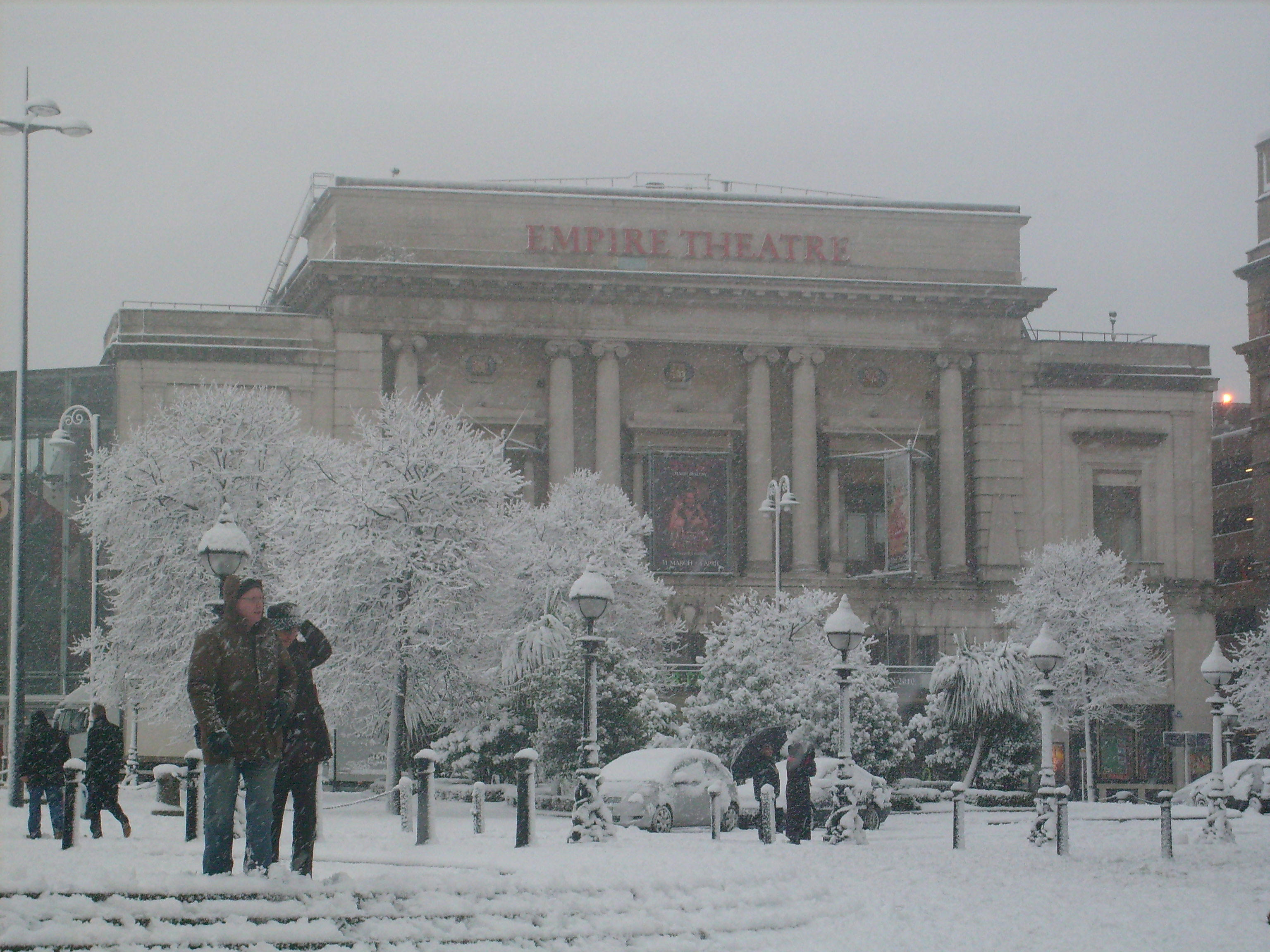 Liverpool Snow January 5 2010